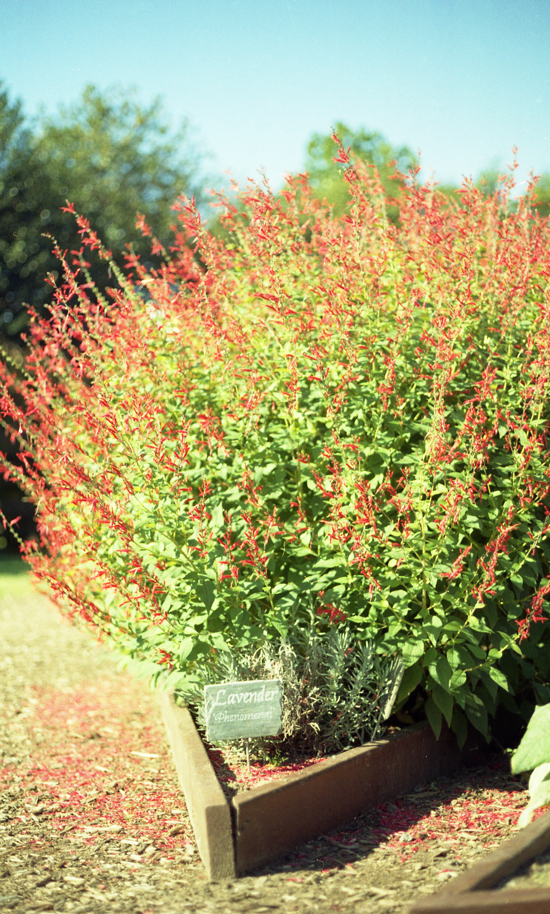 Pineapple sage planted in the White House vegetable garden